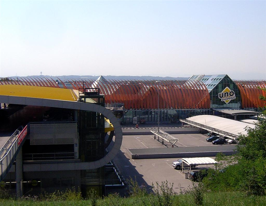 Shopping center UNO Shopping in Leonding, Upper Austria